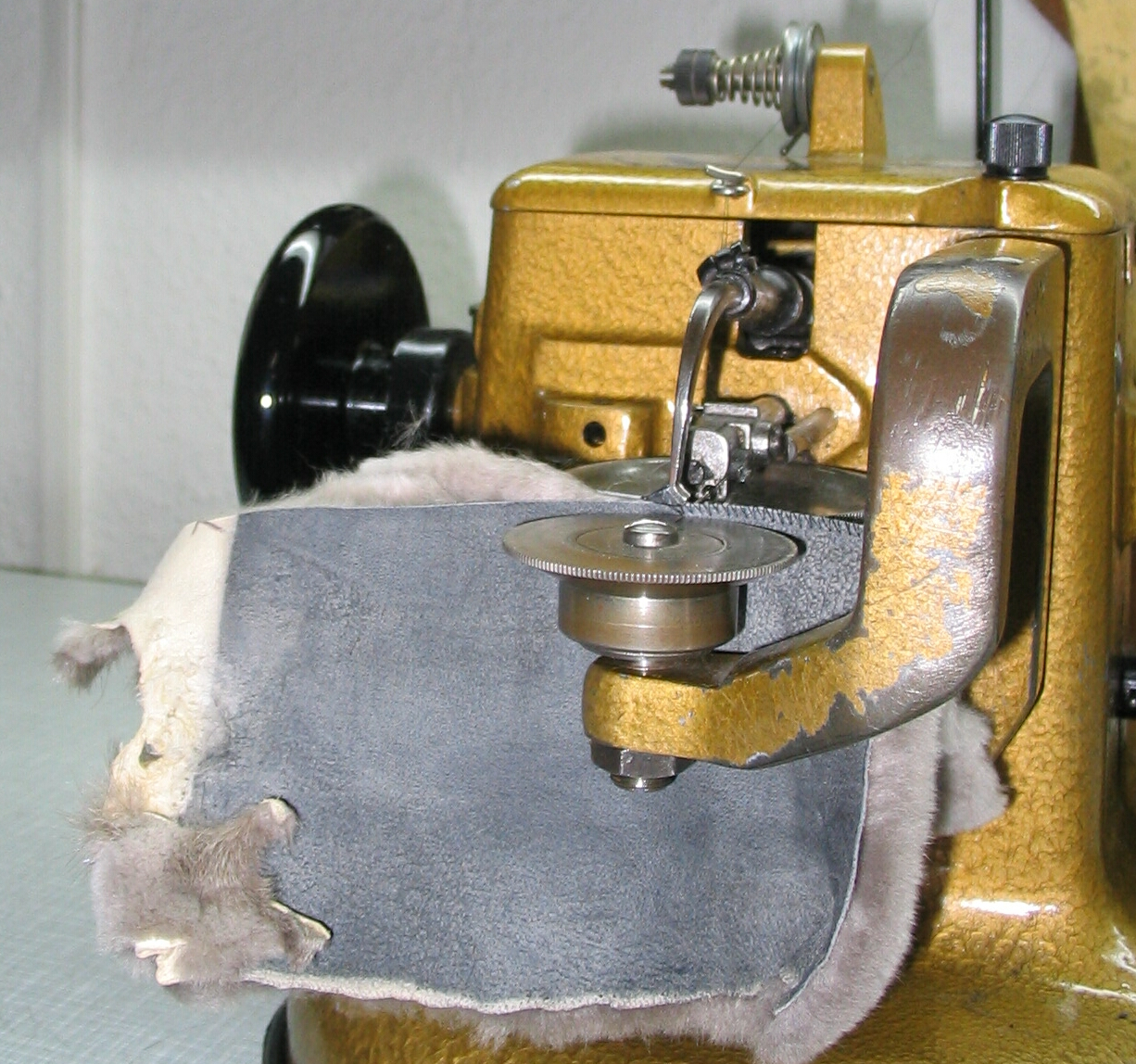 Furrier's tools: Fur sewing machine